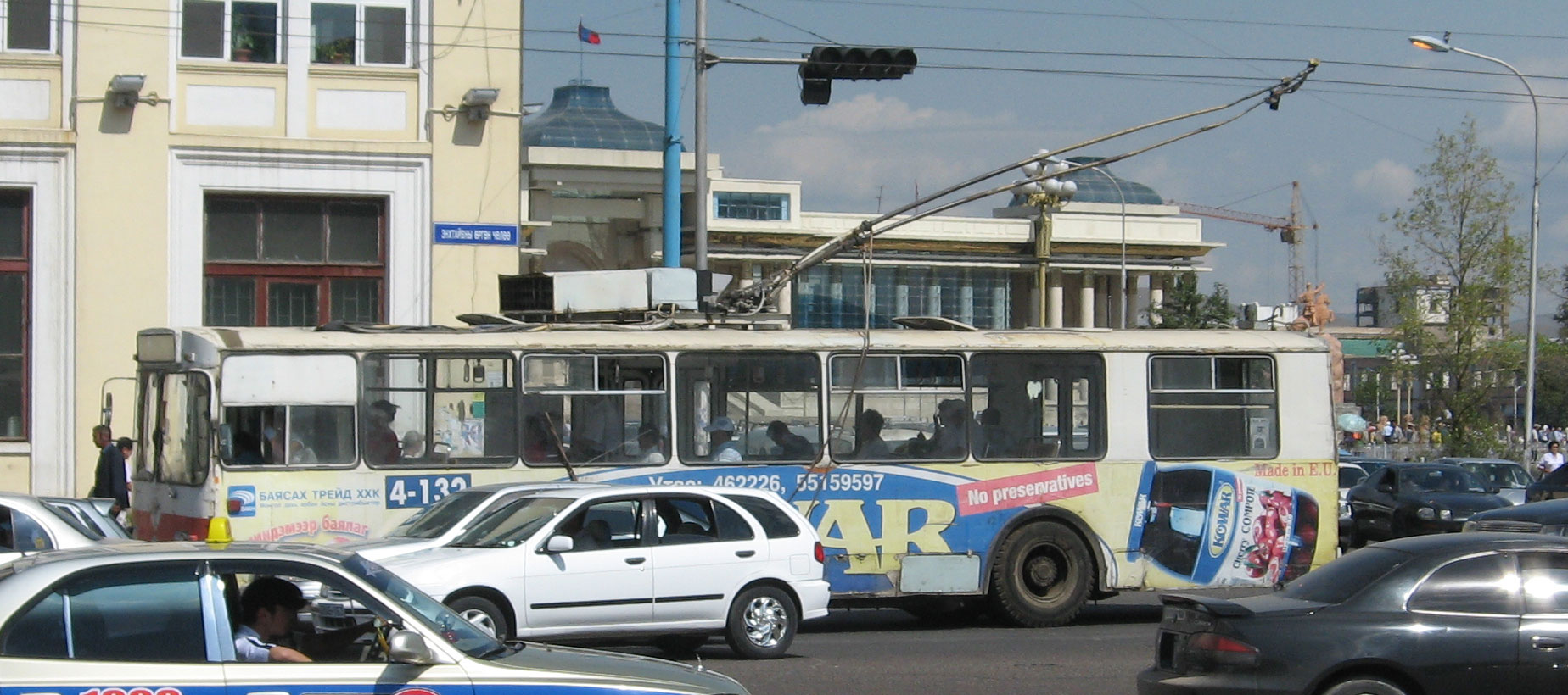 Trolleybus in Ulaanbaatar, on the intersection at the Central Post Office.